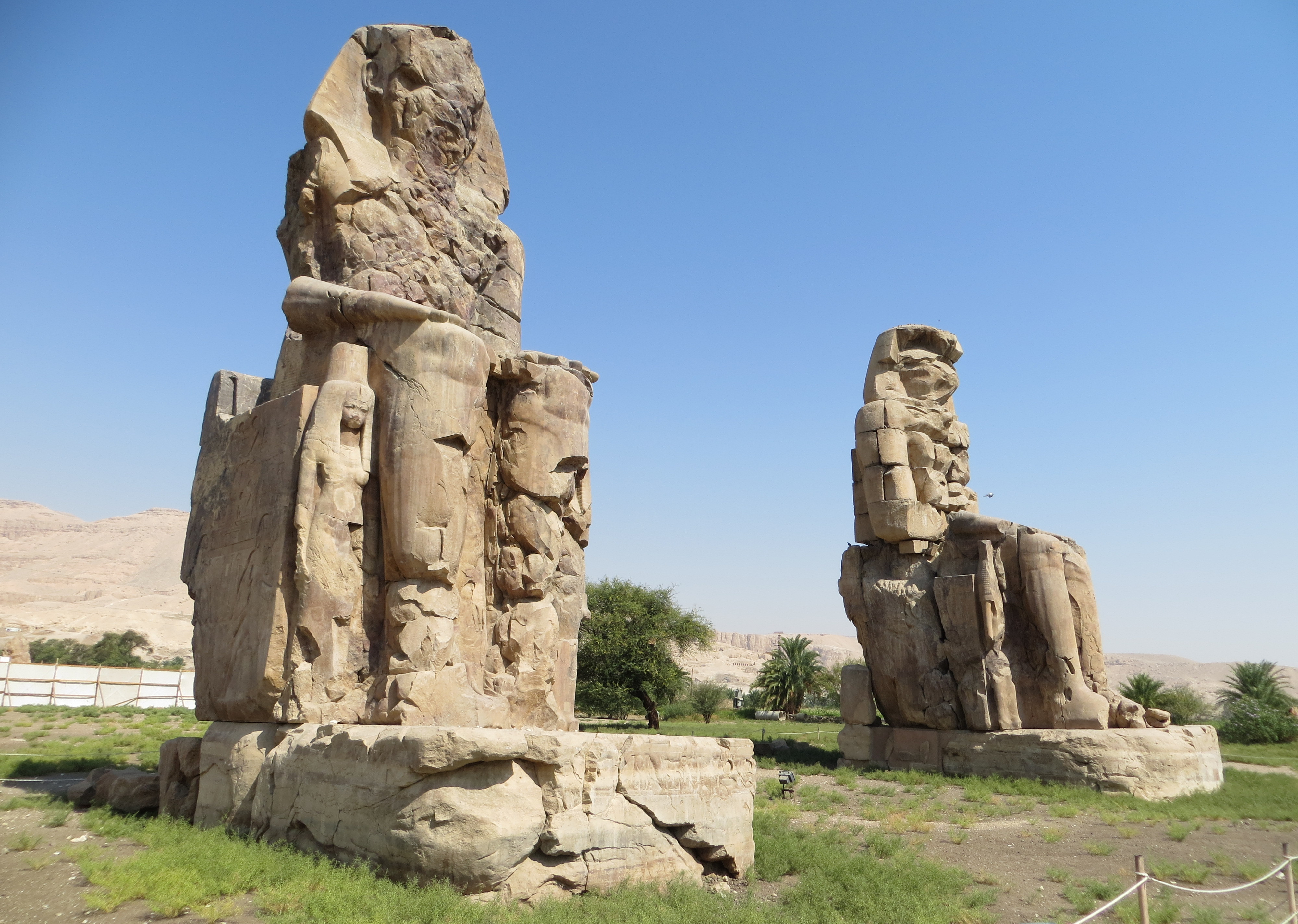 Colossi of Memnon